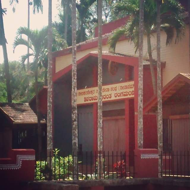 The proscenium stage at Ninasam